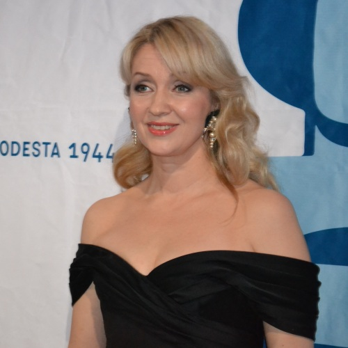 Katariina Kaitue in 2010 Jussi Award.